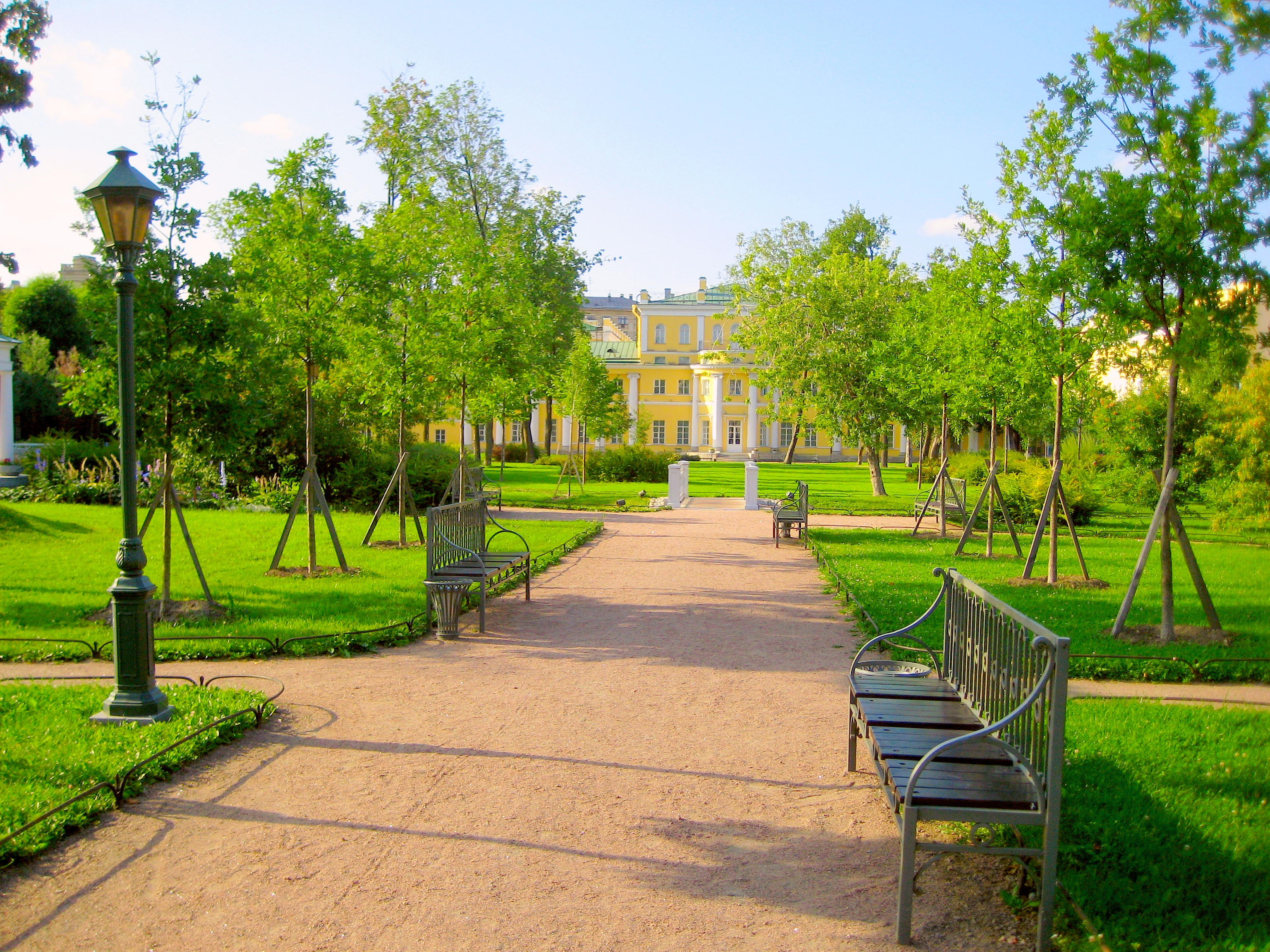 The Manor-Museum of G.R. Derzhavin. Polish garden: Fontanka Embankment, 118. Admiralteysky District, St. Petersburg.